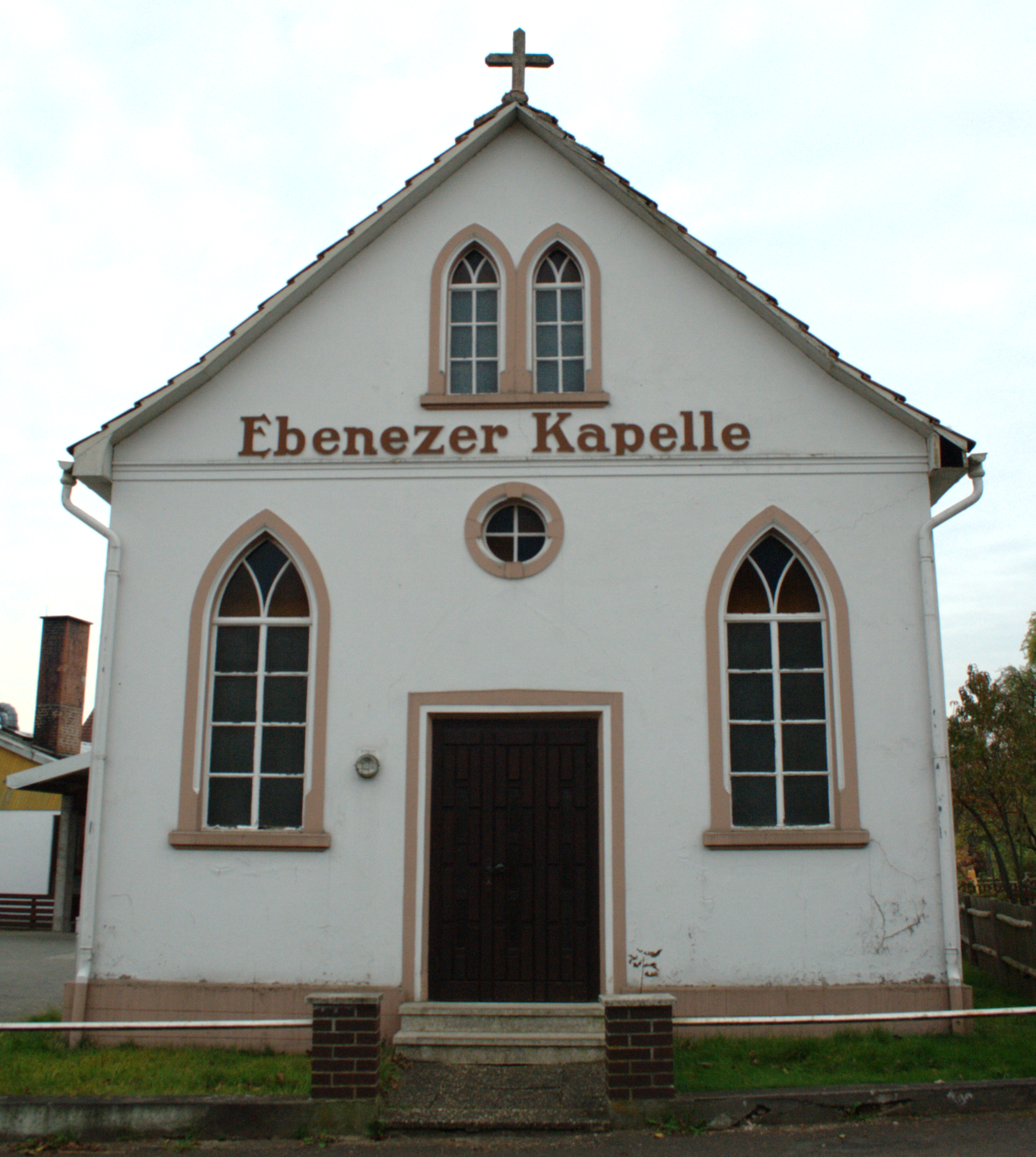 Ebenezer Kapelle (Chapel) in Holzheim / Haunetal / Hesse / Germany